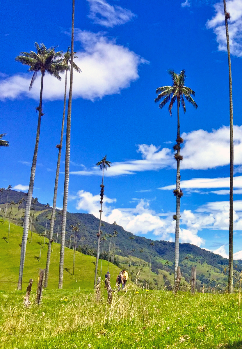 Wax palms in Valle del Cócora